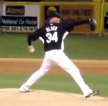 I took this picture at a Marlins spring training game vs the Nationals on 2/27/08. 06:03, 28 February 2008 . . Rabbethan . . 376×370 (36 KB)